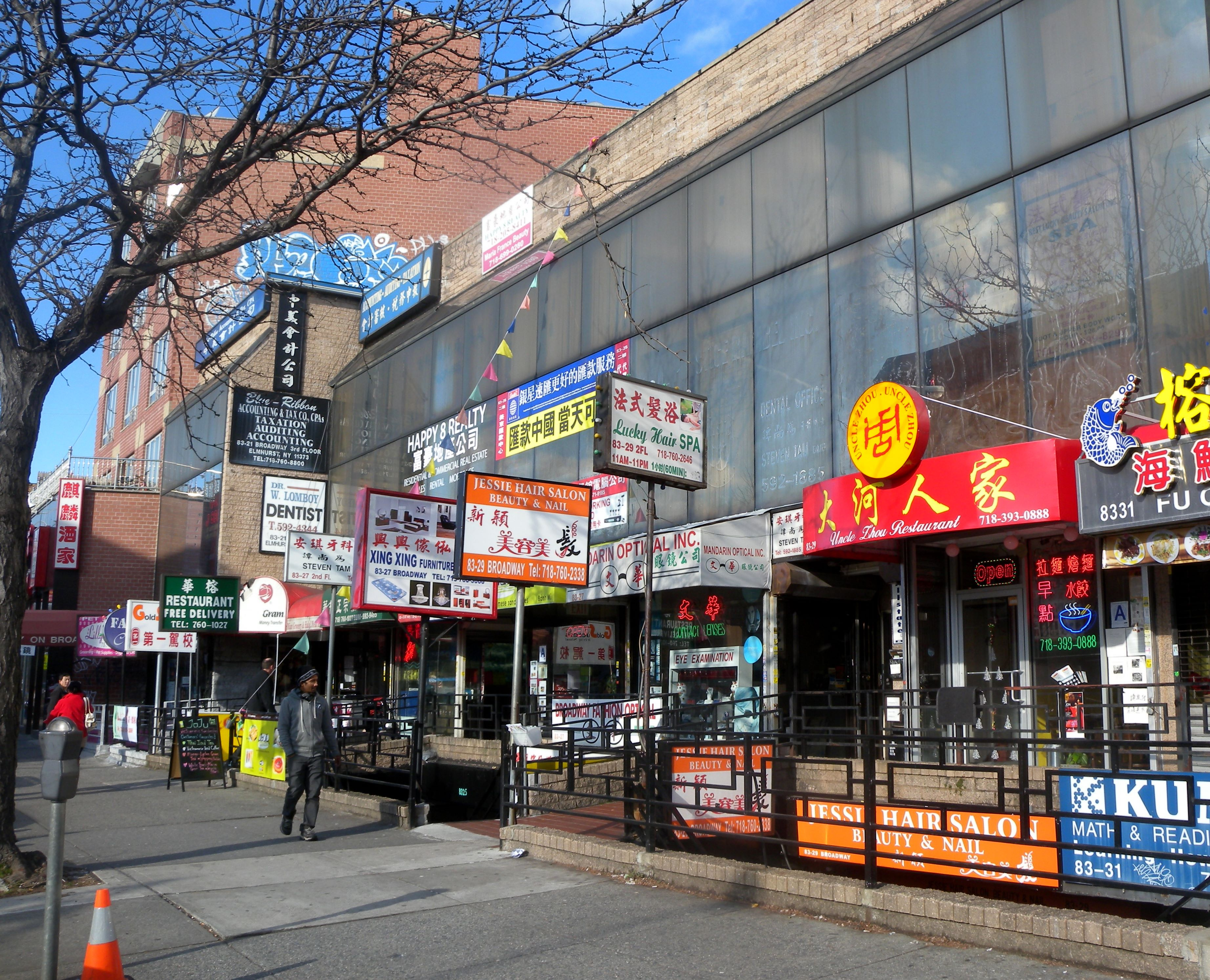 Looking north at shops on Broadway south of the former rail line on a sunny early afternoon. ZIP 11373.